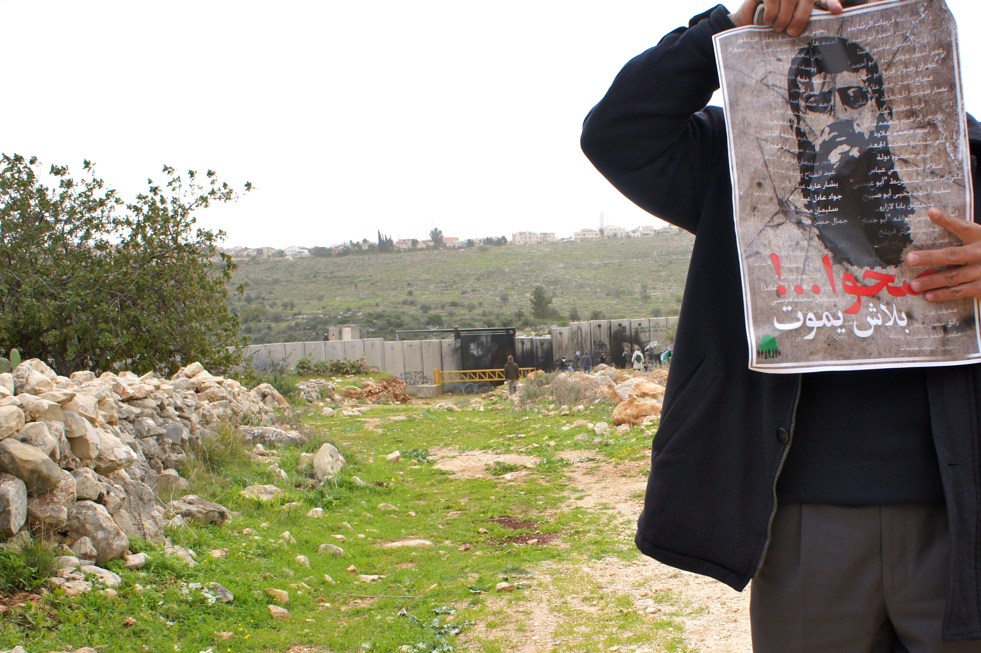 Demonstration in support of Khader Adnan, at Niilin, 17.02.2012. This day there were demonstrations in support og him all over the West Bank, even noticed in Israel.